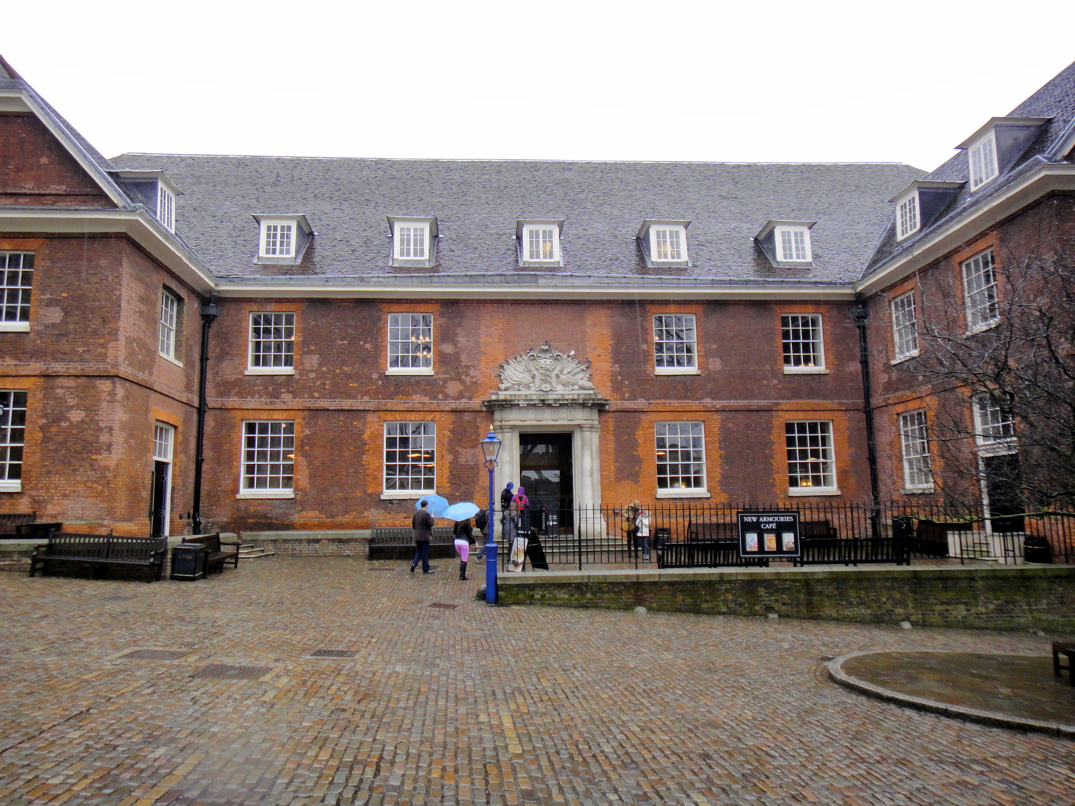 New Armouries, Tower of London